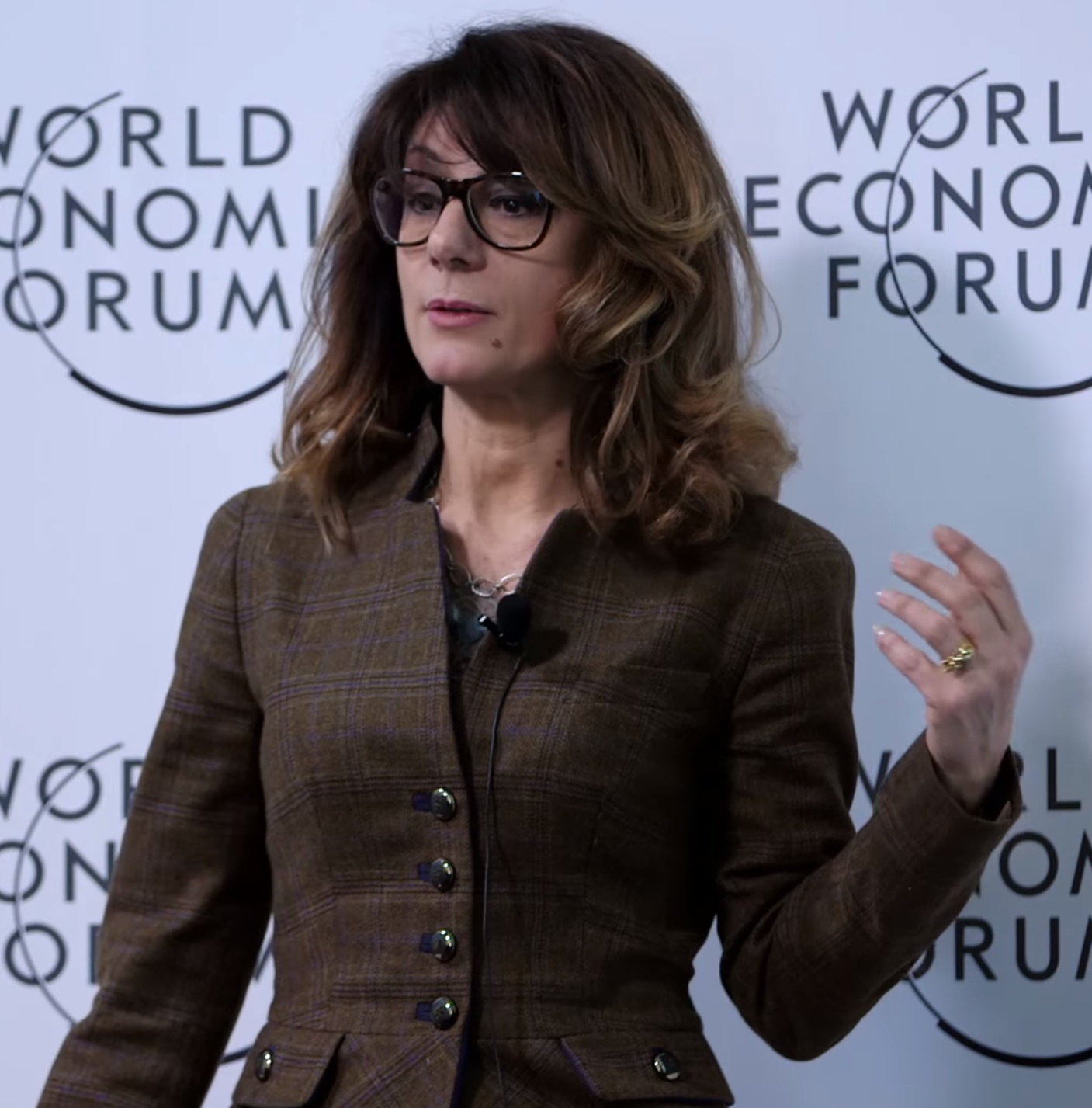 Graziella Pellegrini, from the University of Modena and Reggio Emilia, Italy, showcases personalised, regenerative medicine that uses stem cell therapy to help restore sight.